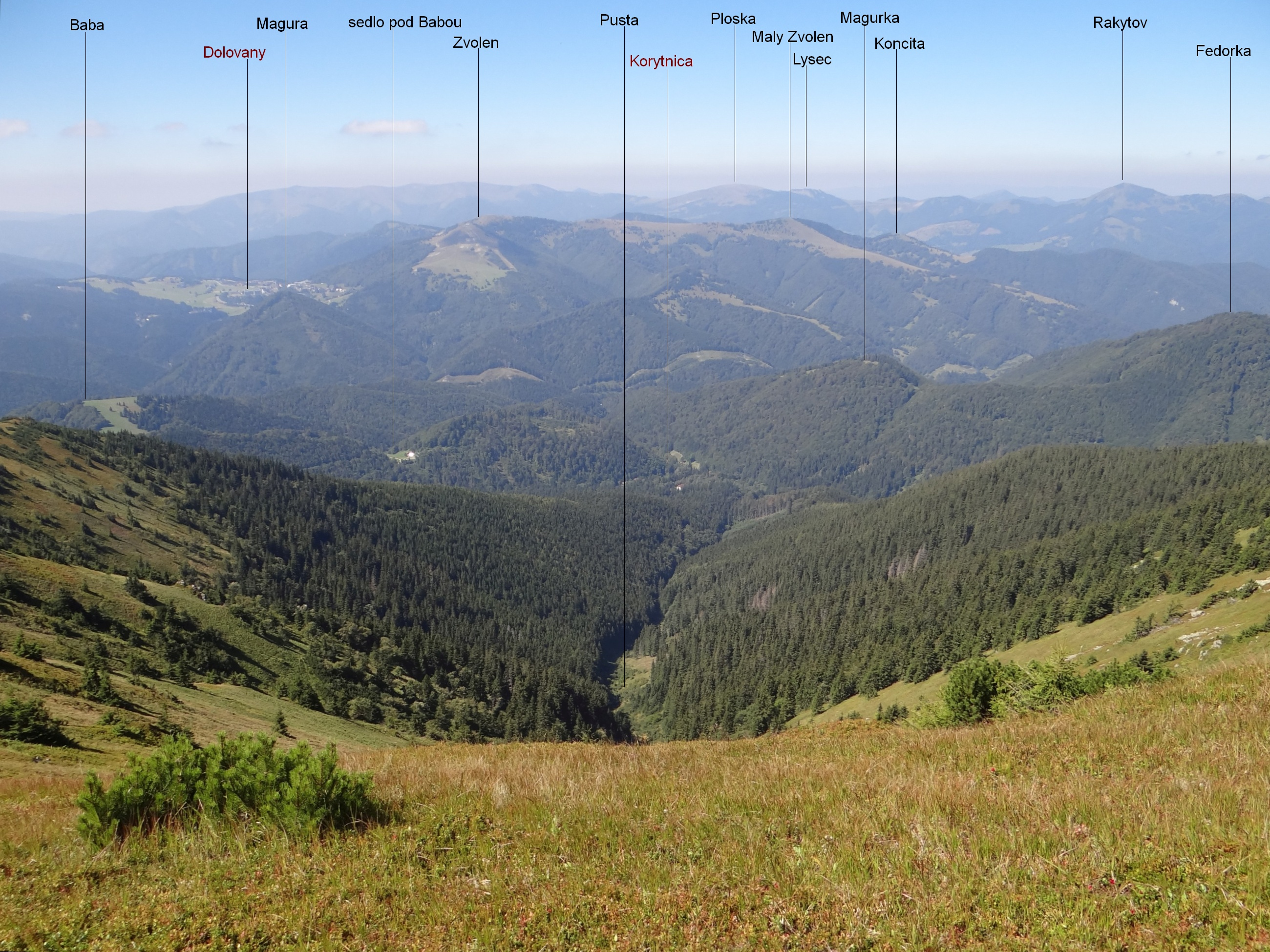 View from Prašivá - Malá Chochuľa